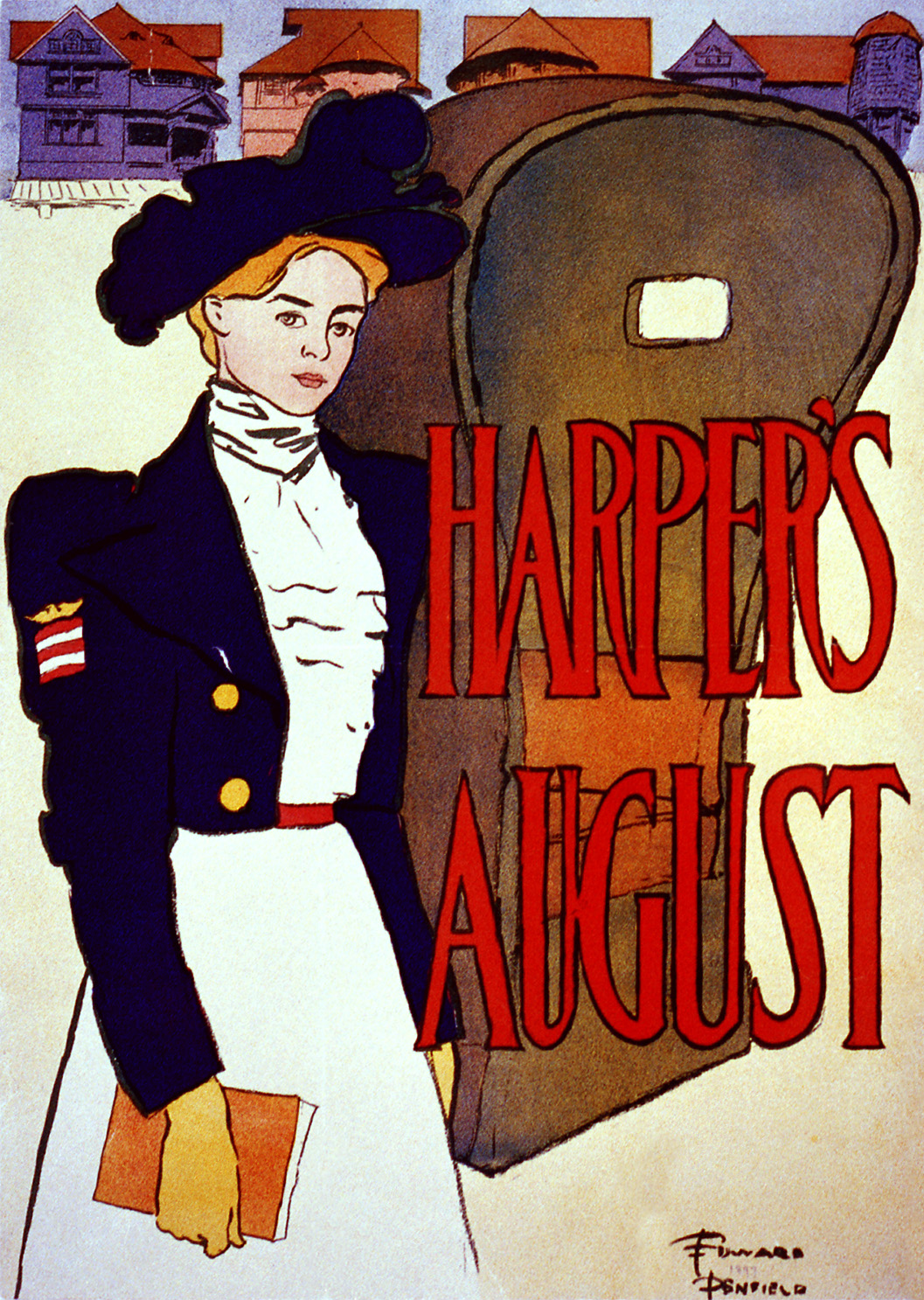 Woman with Harper’s Magazine walking by covered beach chair, houses on boardwalk in background. Four-color lithograph: yellow, red, blue and green.